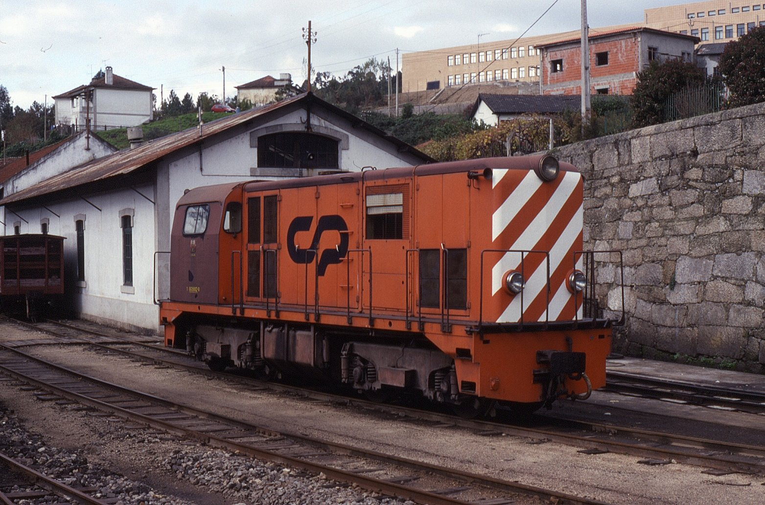 Class 9000 metre gauge loco no. 9002 is seen at Livração on 7 November 1993. By the time this photo was taken, the branch from here to Amarante was the only one left to see loco hauled traffic.